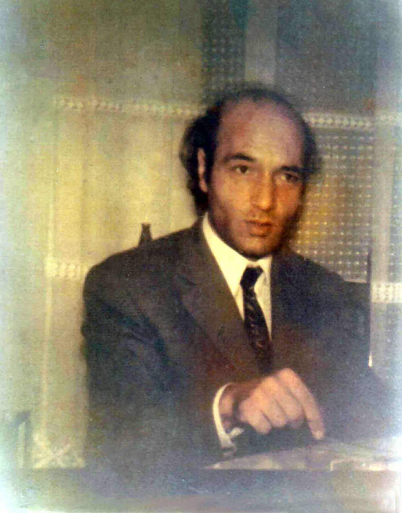 Dr Ali Shariati